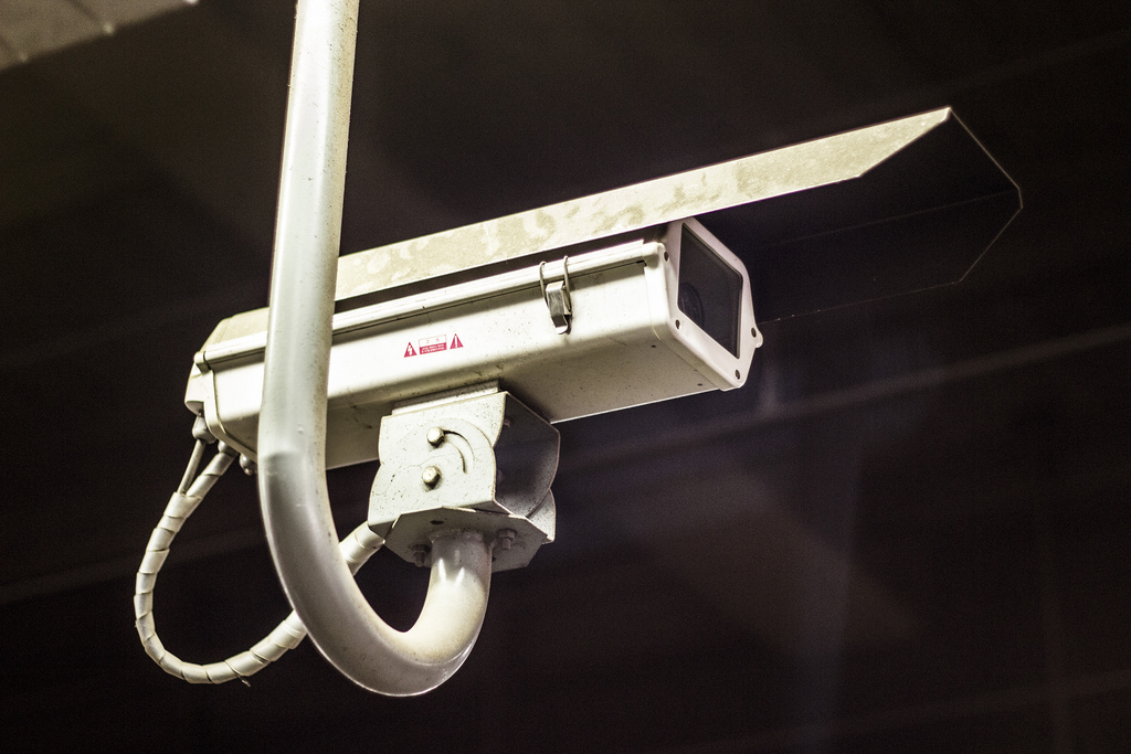 this is the photo of Surveillance Camera which stalled over the train train Platform at Seoul Station.